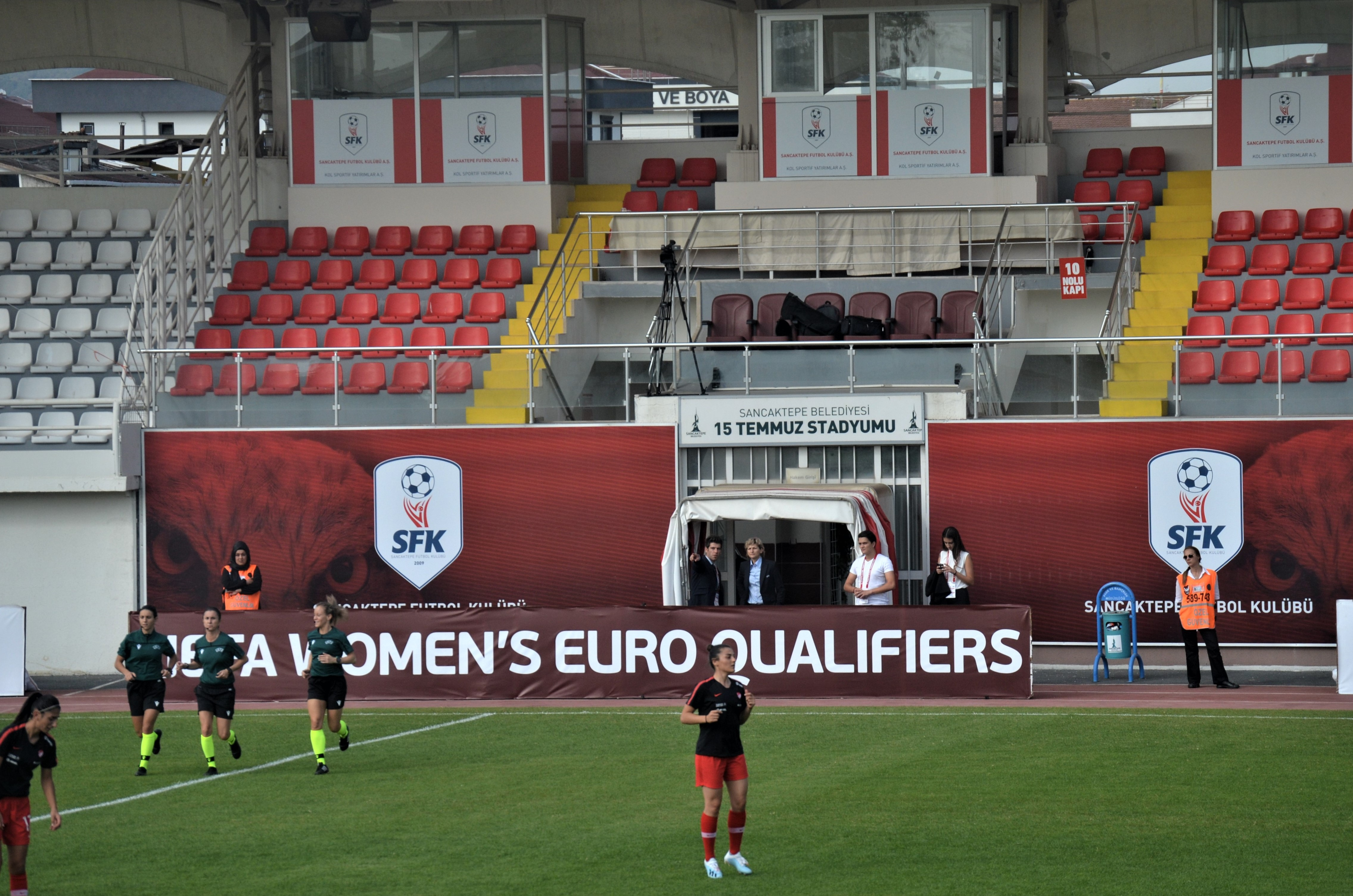 Sancaktepe Belediyesi 15 Temmuz Stadium in Sancaktepe district of Istanbul, Turkey